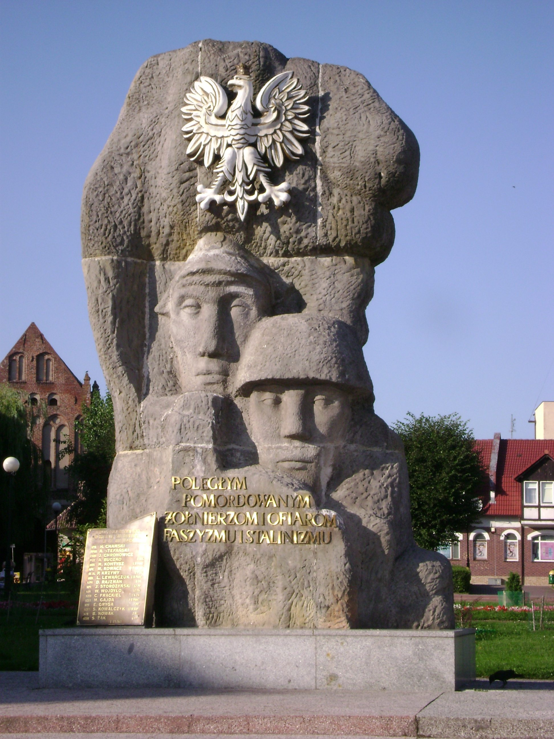 Pomnik Pamięci Poległym i Pomordowanym Żołnierzom Ofiarom Faszyzmu i Stalinizmu. Świdwin.